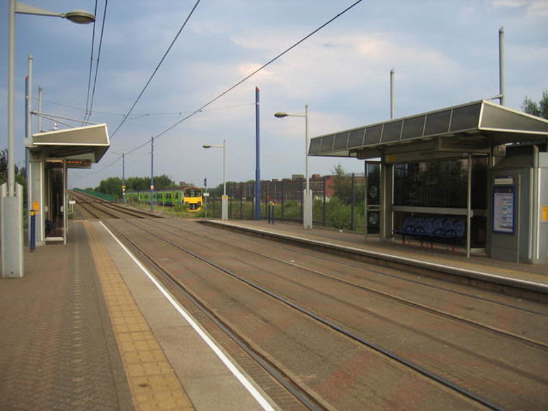 handsworth Booth street tram stop: This is the site of the former Handsworth and Smethwick Station on the ex-GWR Main Line between Birmingham Snow Hill and Wolverhampton Low Level and is an excellent example of railway regeneration. In the post-Beeching era the original main line was closed on 4th March 1972 and most of the track was removed. All that remained was a track from Smethwick Junction serving some sidings just out of view to the left of the picture. In 1995 two lines were relaid for the re-instatement of the cross-city passenger services from Snow Hill to Smethwick and onwards to Worcester. The train on the right is operating one of these services. Subsequently the other two tracks were replaced and opened in 1999 as part of the Midlands Metro tram service between Birmingham and Wolverhampton. The tram tracks can be seen rising up over a bridge giving access to the original "heavy-rail" sidings mentioned above.